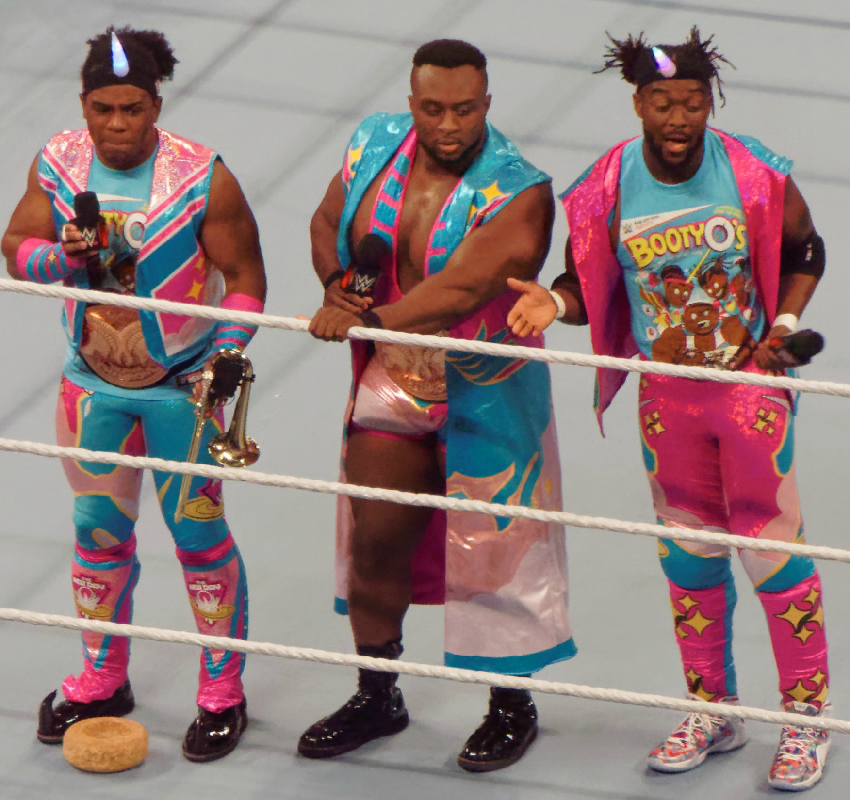 The New Day "from left to right: Xavier Woods, Big E and Kofi Kingston the night after WrestleMania 32 on Raw posing with the WWE Tag Team Championships before a match in April 4, 2016.